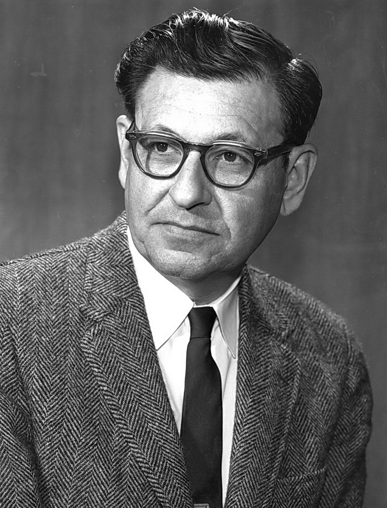 Formal portrait of Albert Ghiorso, nuclear scientist, co-discoverer of 12 elements on the periodic table, and inventor of nuclear research technology, inlcuding the Omnitorn and the Bevalac. Taken around 1970.